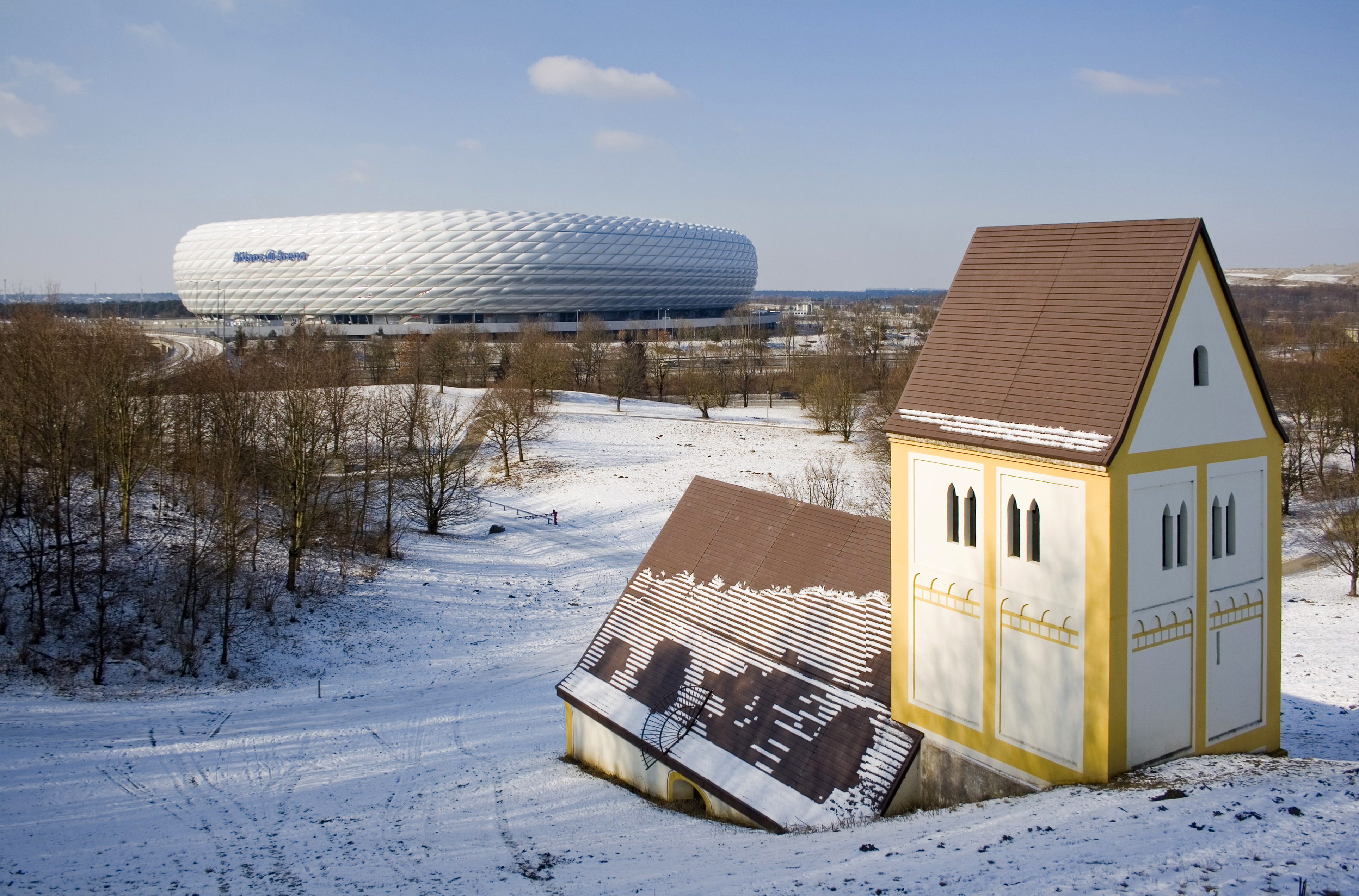 Holy Cross Church replica belonging to the art project "Sunken Village" in the foreground and the Allianz Arena in the background, Munich, Germany